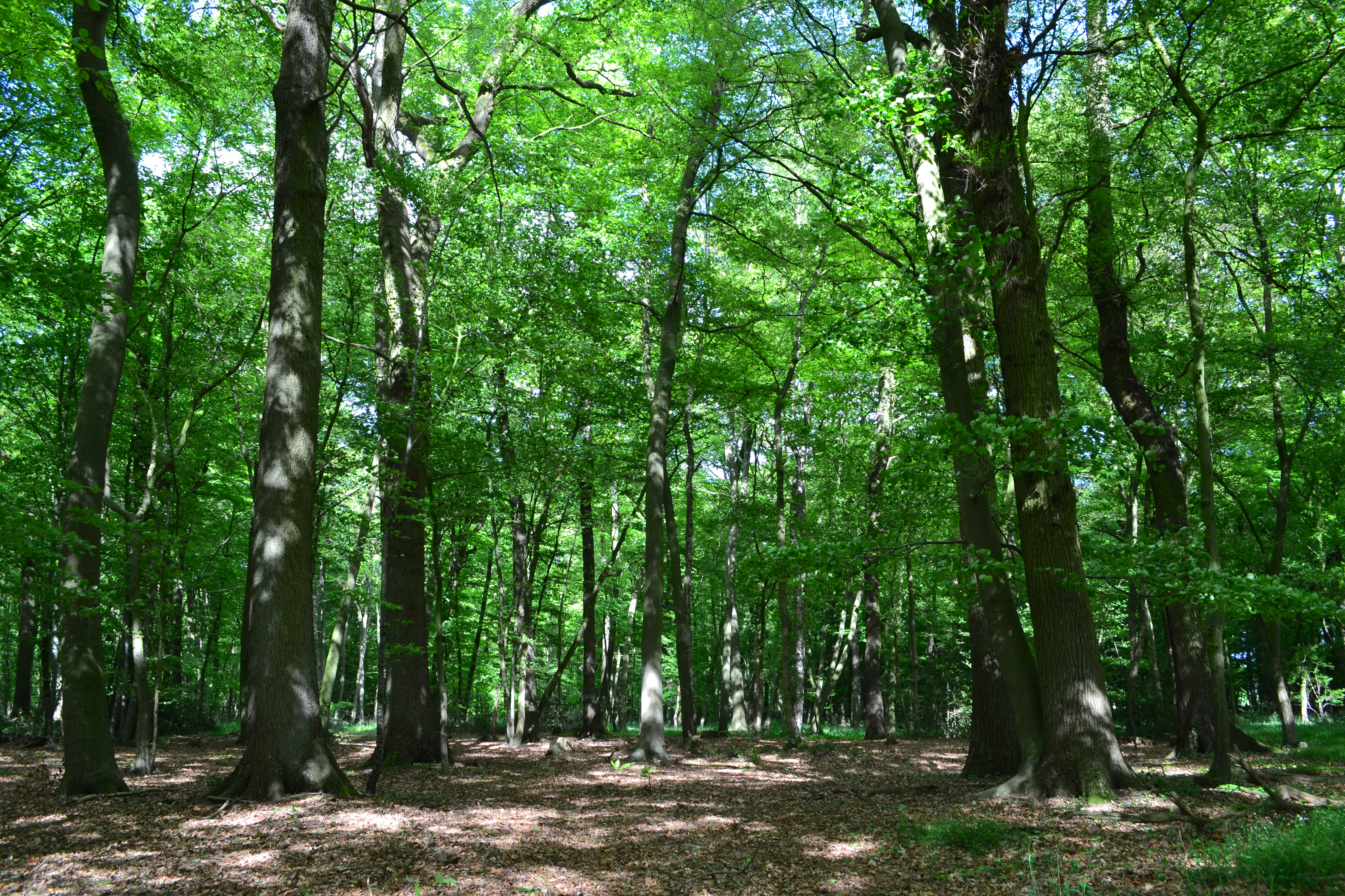 Near-natural deciduous forest in nature reserve "Laßbrook" (NSG LÜ 127) in Lower Saxony.